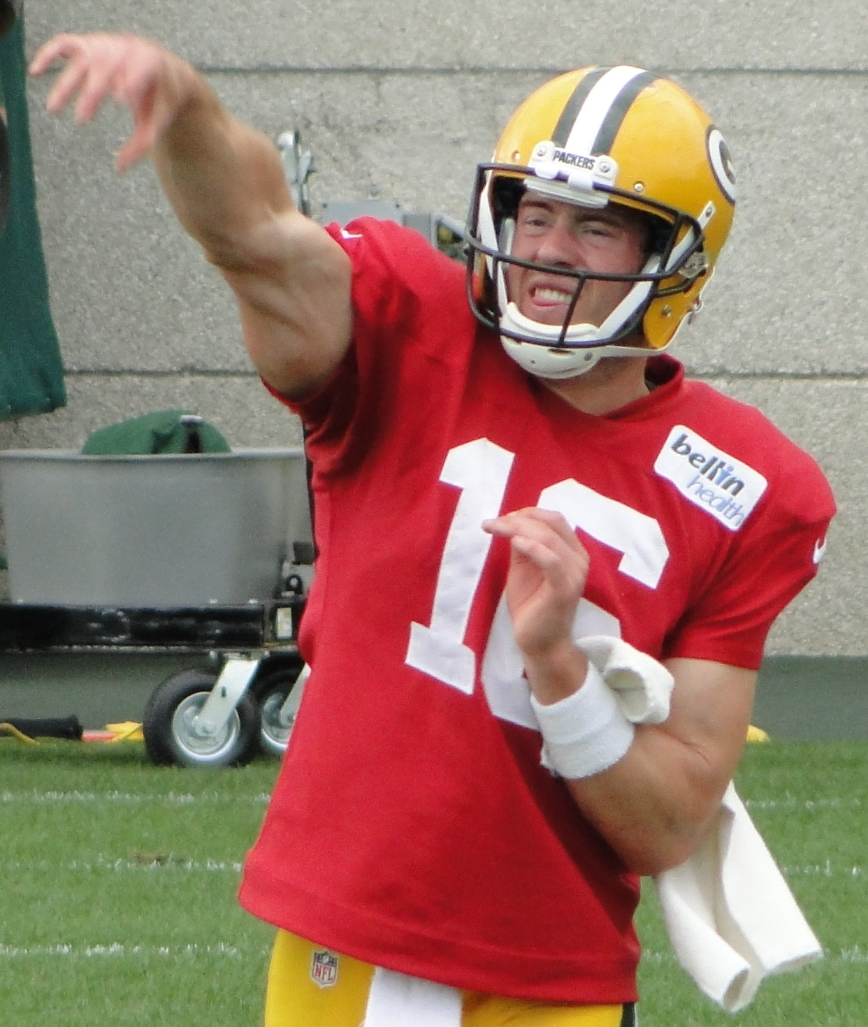 Green Bay Packers quarterback Scott Tolzien practices at training camp in 2014.